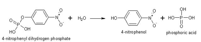 Reaction scheme hydrolysis of p-nitrophenol phosphate to p-nitrophenol and phosphate